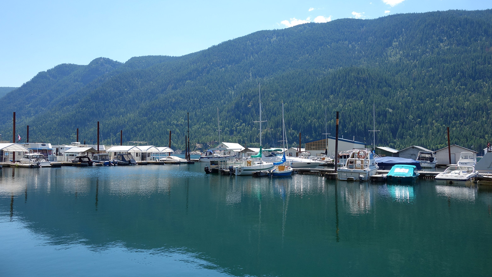 Scotties Marina, near Castlegar, British Columbia, Canada